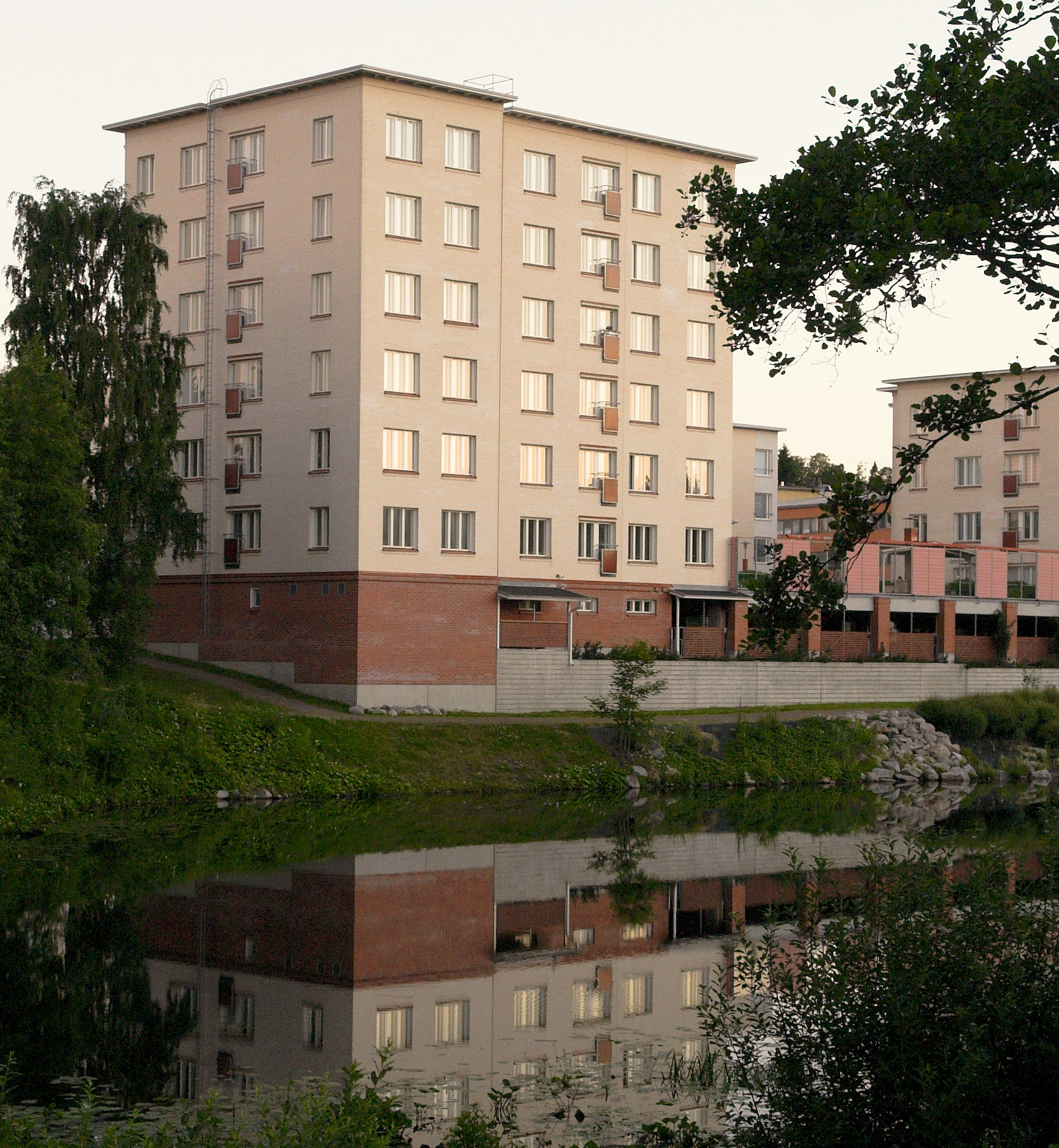 Kuopas Student housing in Kuopio, Finland. Pyoräkatu street, Mustinlampi pond in the foreground.